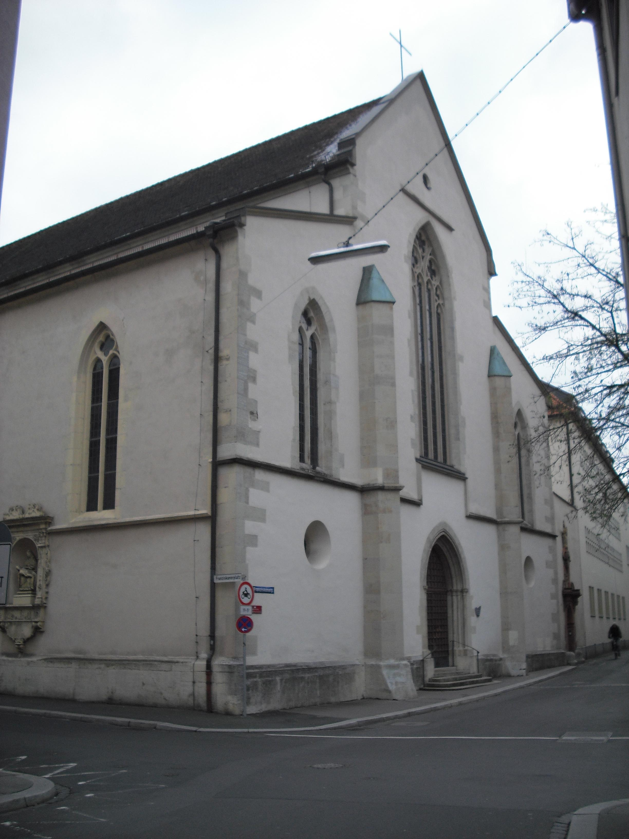 Main entrance of Würzburg's Franciscan church.